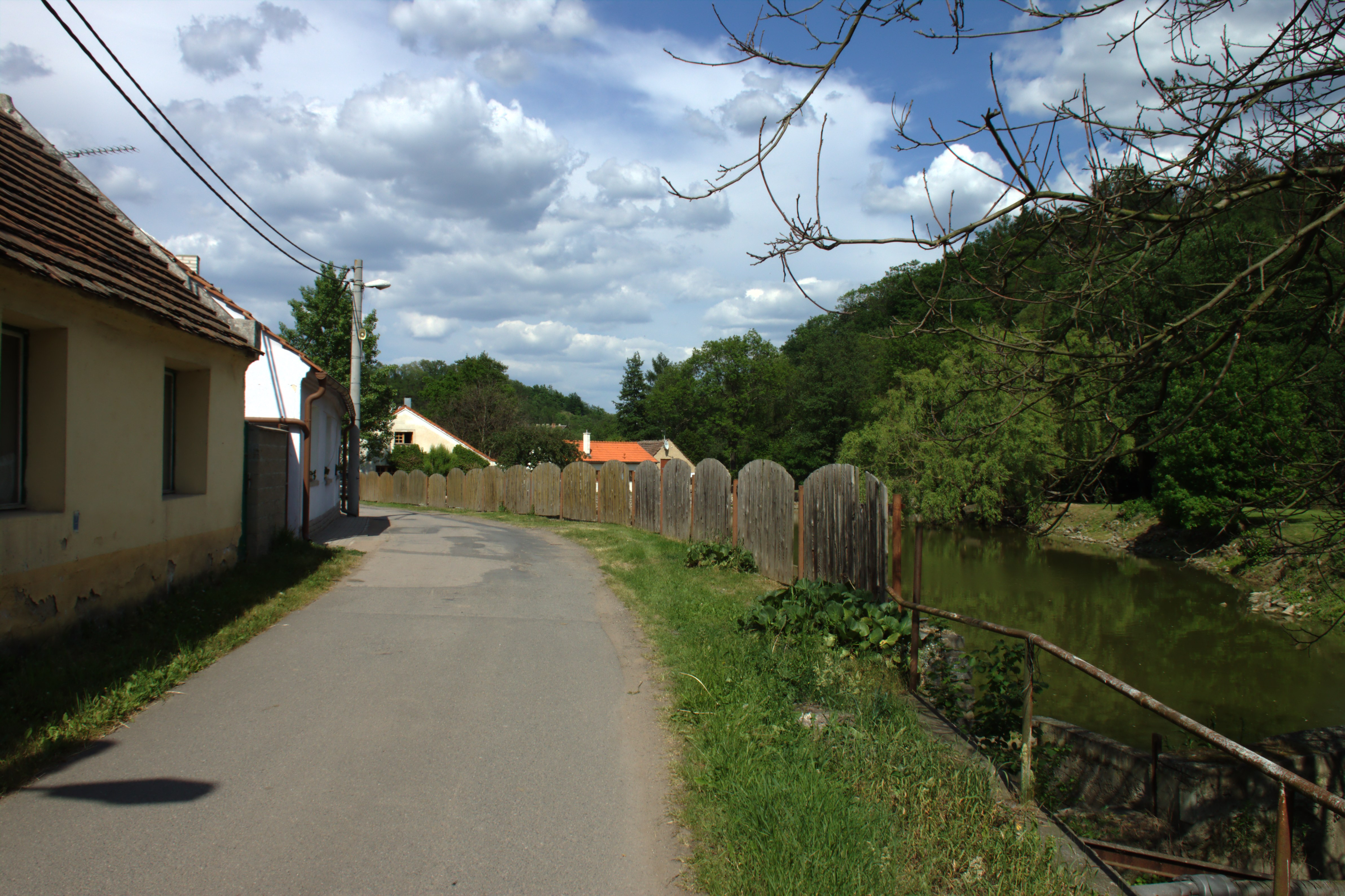 A pond in the central part of the village of Mozolín, part of the town of Koleč, Central Bohemian Region, CZ